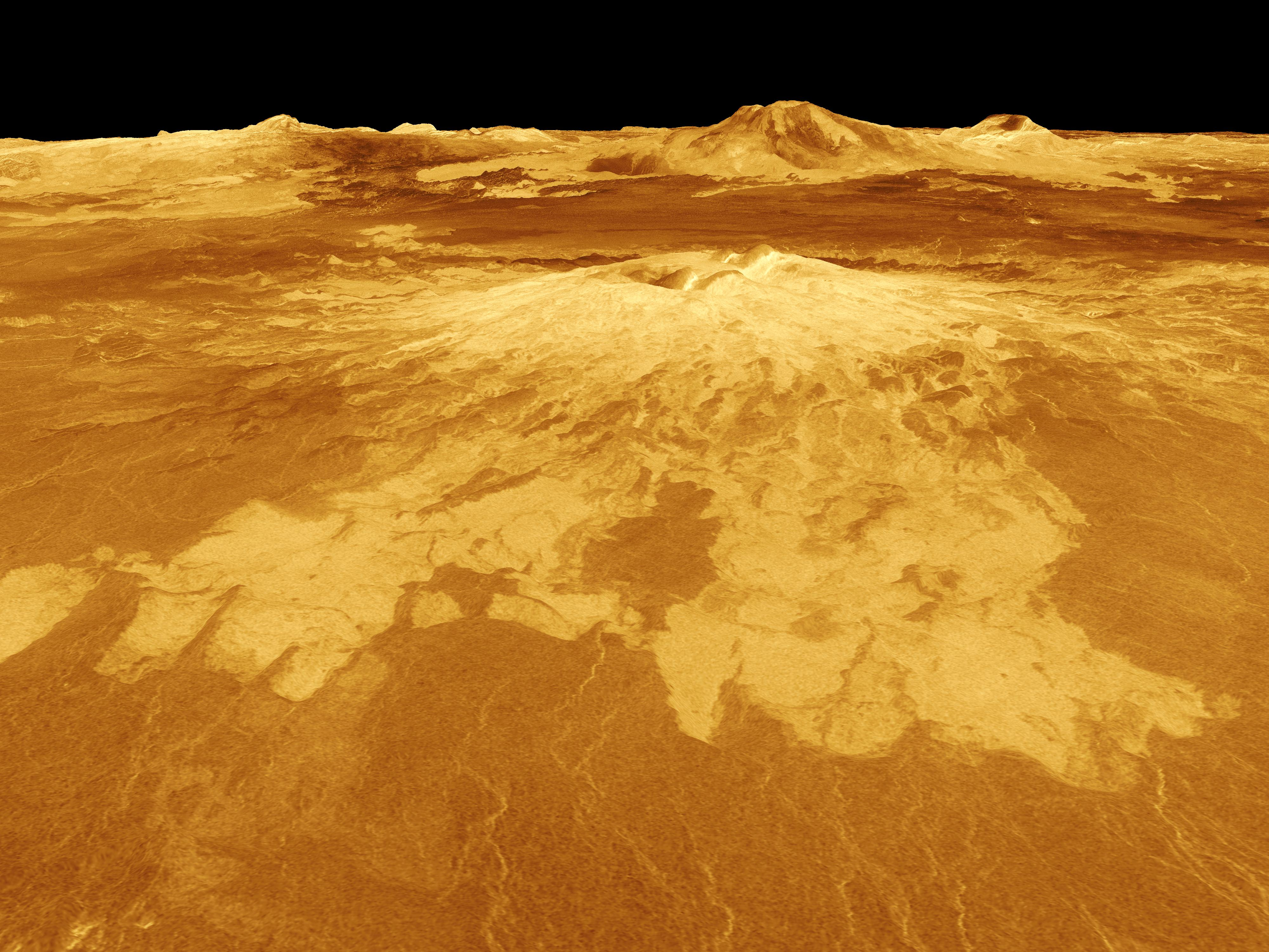 Sapas Mons is displayed in the center of this computer-generated three-dimensional perspective view of the surface of Venus. The viewpoint is located 527 kilometers (327 miles) northwest of Sapas Mons at an elevation of 4 kilometers (2.5 miles) above the terrain. Lava flows extend for hundreds of kilometers across the fractured plains shown in the foreground to the base of Sapas Mons. The view is to the southeast with Sapas Mons appearing at the center with Maat Mons located in the background on the horizon. Sapas Mons, a volcano 400 kilometers (248 miles) across and 1.5 kilometers (0.9 mile) high is located at approximately 8 degrees north latitude, 188 degrees east longitude, on the western edge of Atla Regio. Its peak sits at an elevation of 4.5 kilometers (2.8 miles) above the planet's mean elevation. Sapas Mons is named for a Phoenician goddess. The vertical scale in this perspective has been exaggerated 10 times. Rays cast in a computer intersect the surface to create a three-dimensional perspective view. Simulated color and a digital elevation map developed by the U.S. Geological Survey are used to enhance small-scale structure. The simulated hues are based on color images recorded by the Soviet Venera 13 and 14 spacecraft. The image was produced by the Solar System Visualization project and the Magellan Science team at the JPL Multimission Image Processing Laboratory and is a single frame from a video released at the April 22, 1992 news conference.